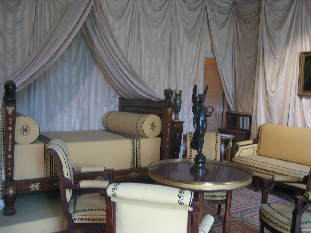 Château de Malmaison à Rueil Malmaison, Hauts-de-Seine, France. Yellow chamber known as the Emperor's Chamber, although we are not sure that Napoleon actually used this room. François-Honoré Jacob-Desmalter's bed (1806) from the Palais des Tuileries, mahogany seats from the Château de Saint-Cloud. Stretched ivory gourgouran striped textiles (1969) reminiscent of the striped muslin mentioned in the 1814 inventory.